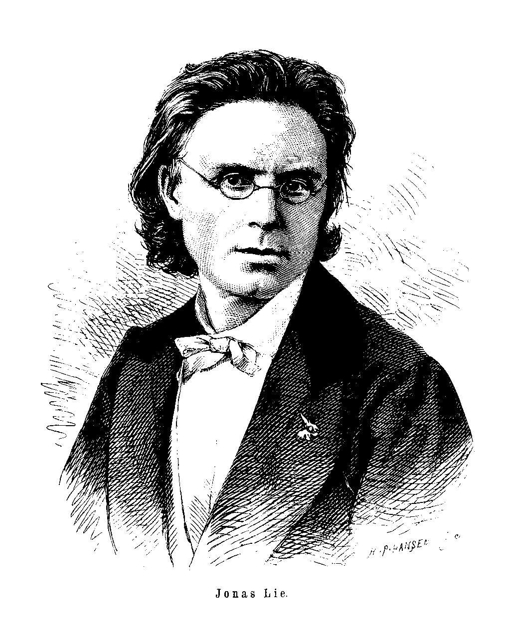 Norwegian author Jonas Lie. Engraving by H. P. Hansen